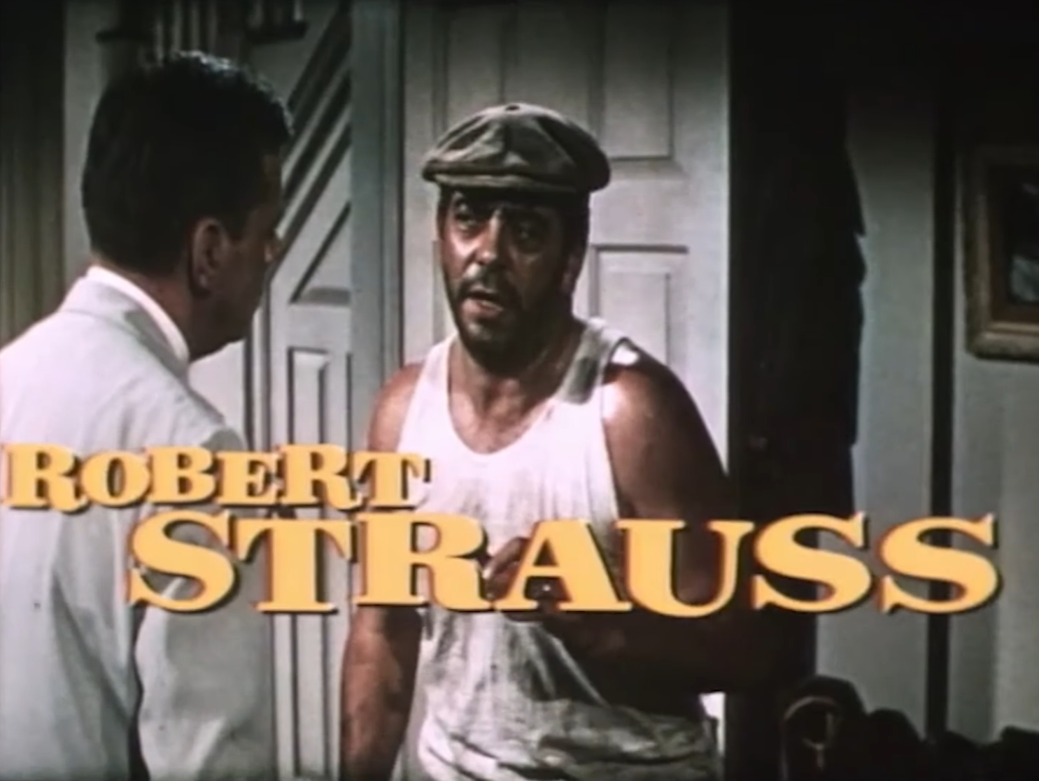 Robert Strauss introduced in the theatrical trailer of the 1955 film The Seven Year Itch directed by Billy Wilder.